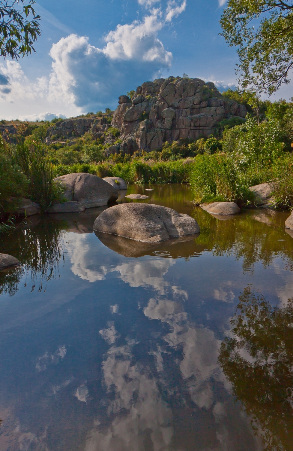 Mertvovod river canyon